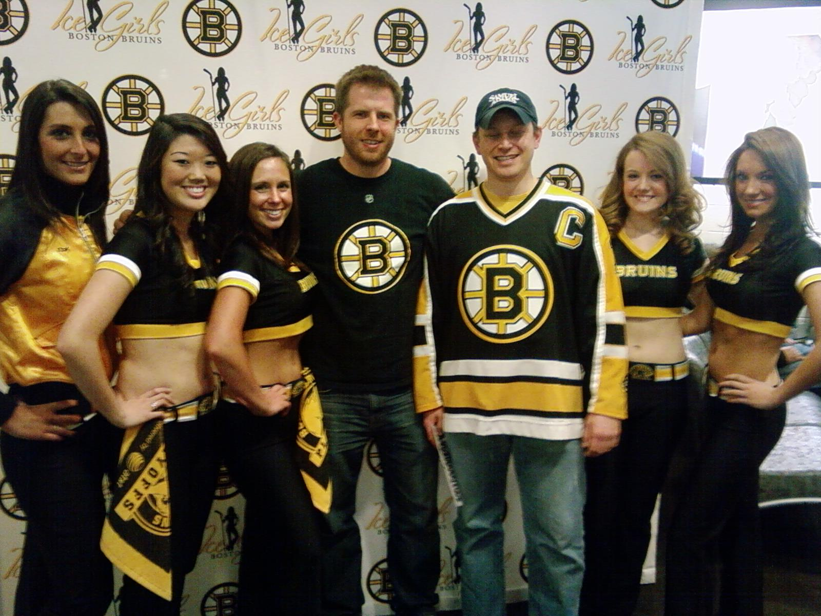 A group of Boston Bruins Ice Girls from the 2009-2010 NHL season pose for a picture with two fans